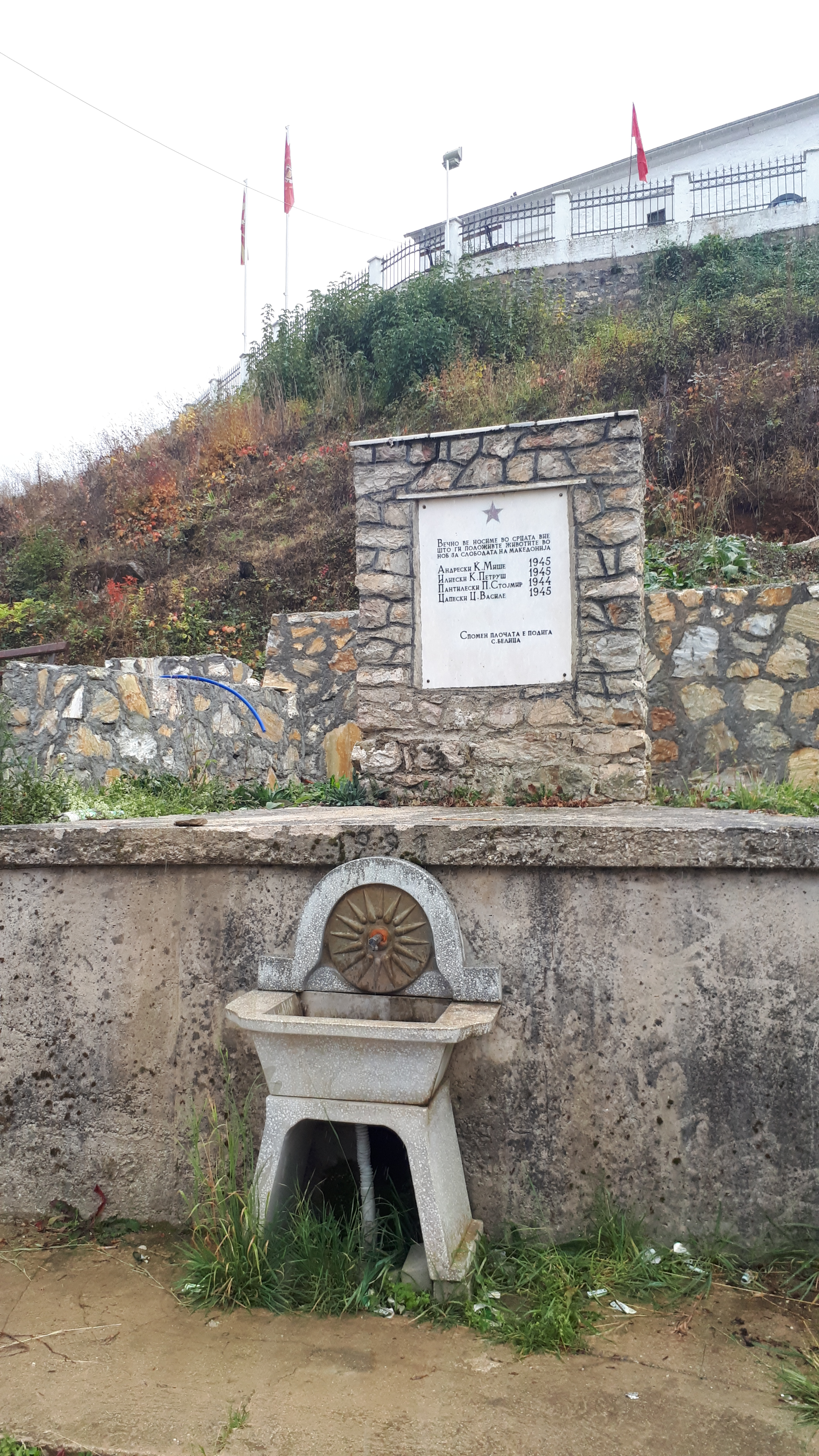 Village pump in Belica